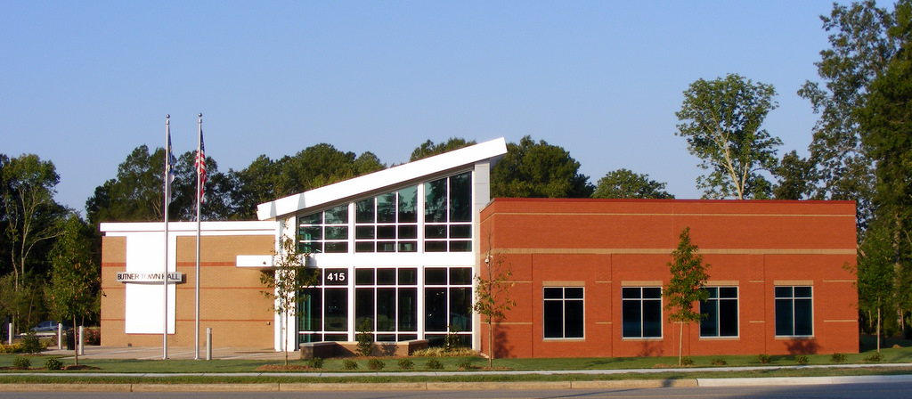 Town of Butner became incorporated by the state of North Carolina in 2007.Before 2007, the town was state run after the closing of the military installation known as Camp Butner.